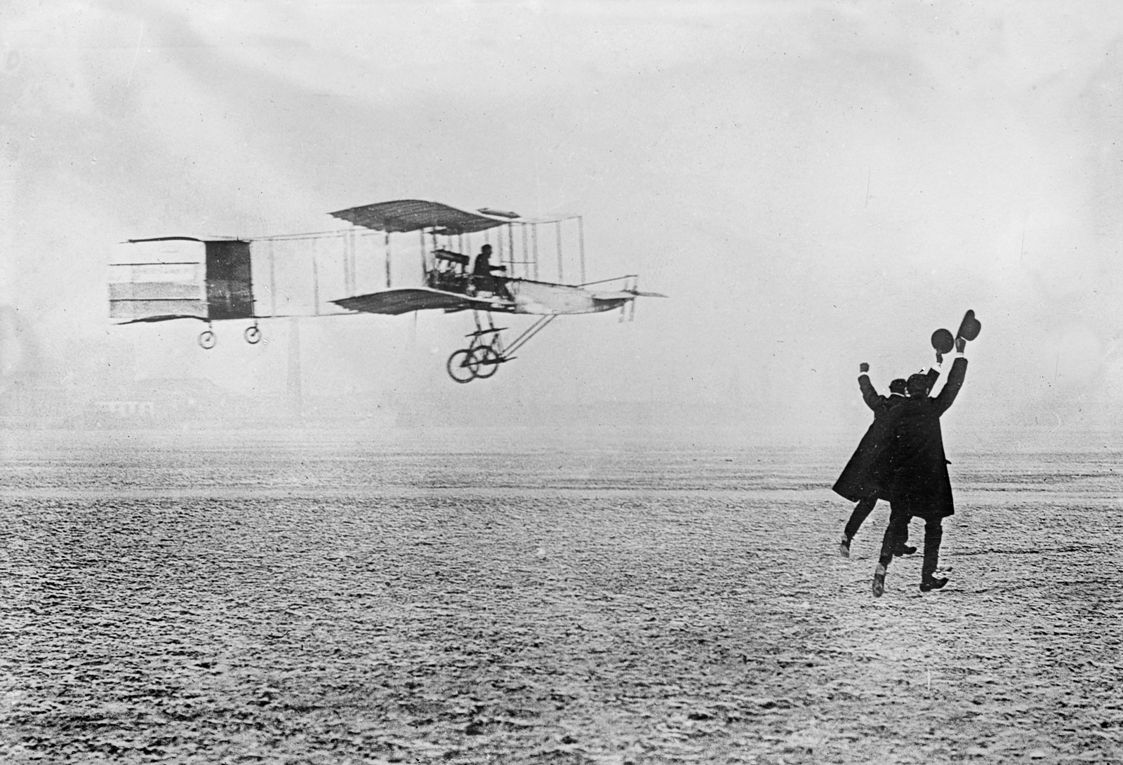 On Jan. 13, 1908, French aviator Henri Farman won with his Voisin-Farman I the Grand Prix d’Aviation for the first circular flight of more than 1 km (0.6 mile).